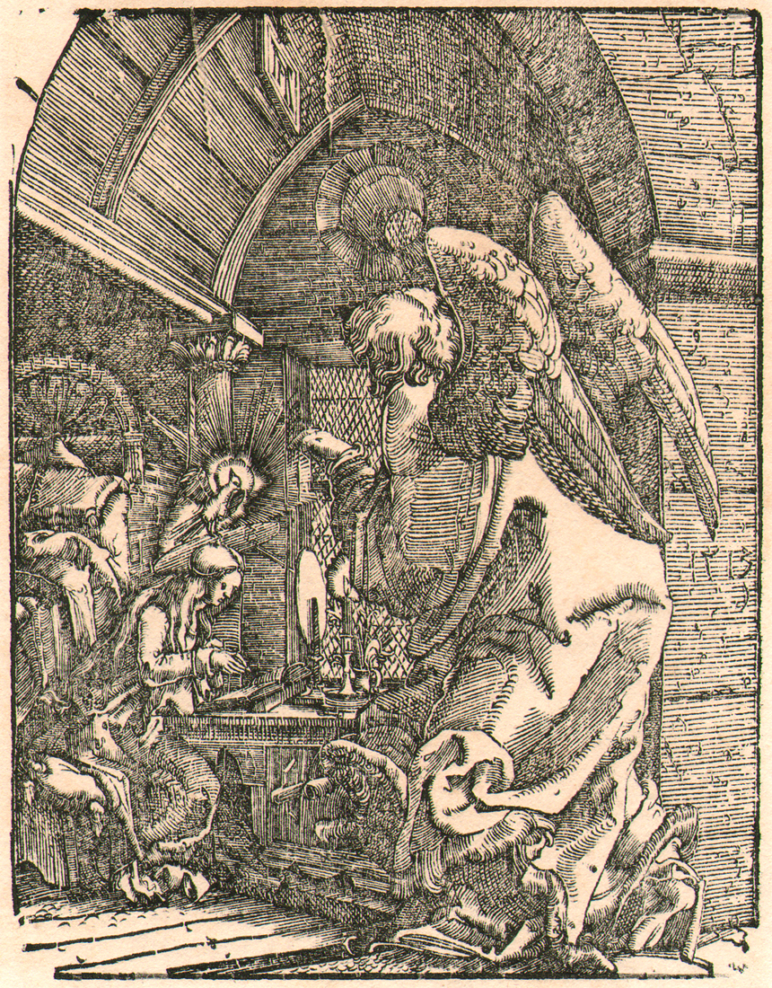 Albrecht Altdorfer. Woodcut